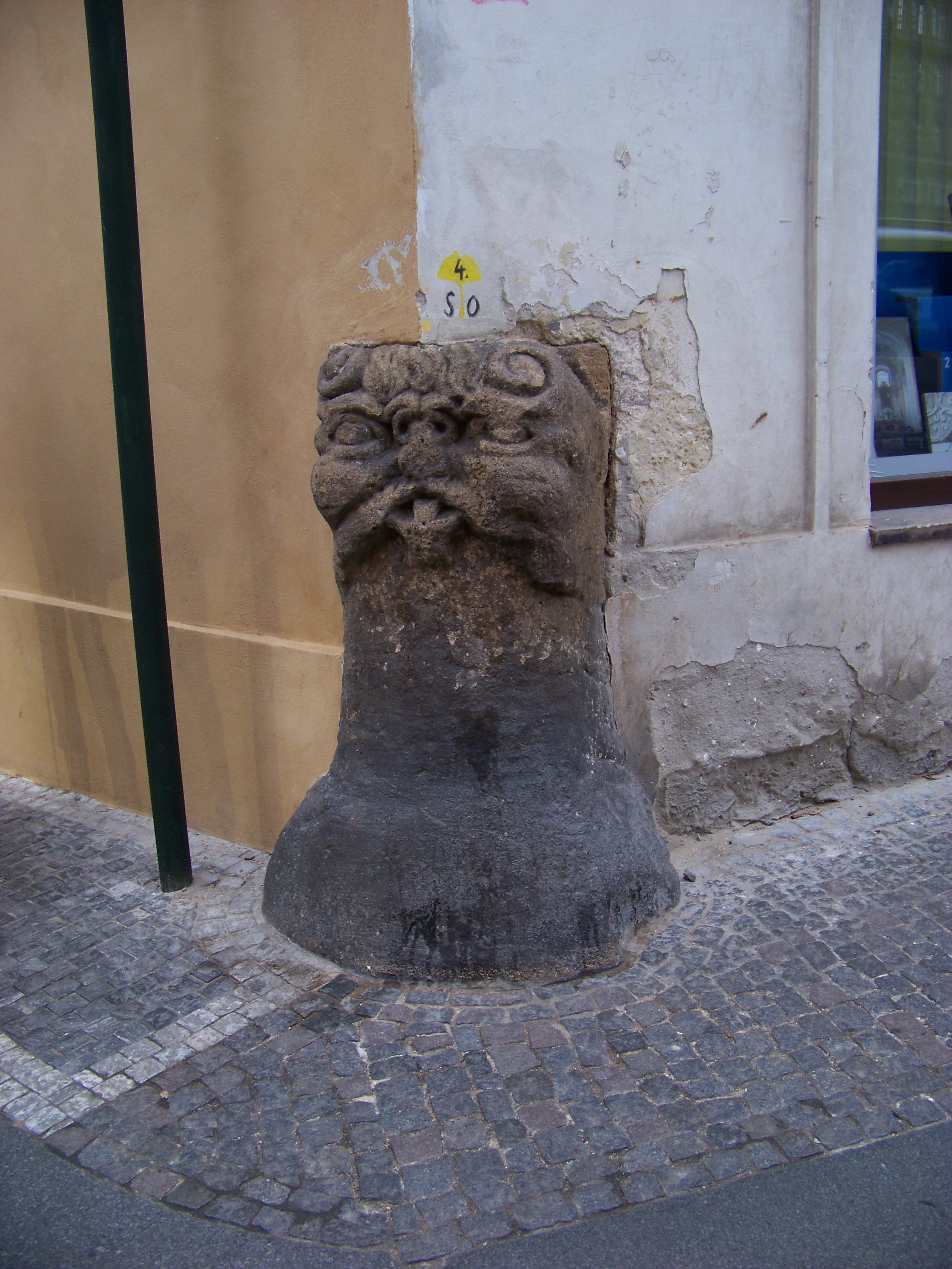 Prague-Old Town, Czech Republic. Husova 352/2, Na Perštýně 352/18, a guard stone.